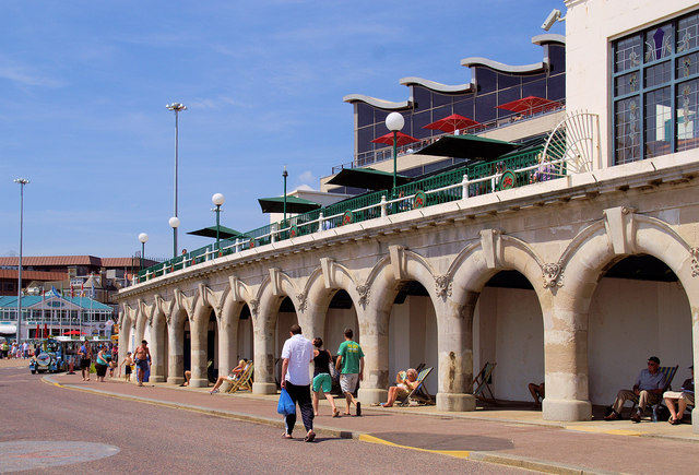 Bournemouth - Seafront The terrace and roof of the Waterfront Building from below.